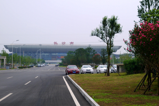 the front view of Changsha South Railway Station